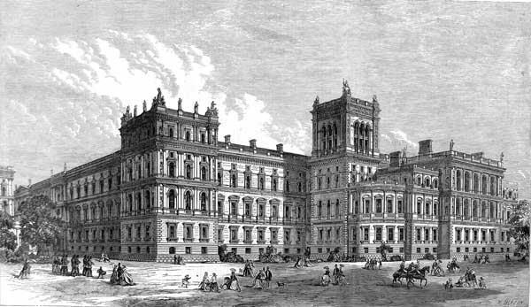 ' The New Foreign and India Offices: The Quadrangle', Full page engraving, Illustrated London News, 1866, 2931, 32 pages; Newspaper measuring 28cm x 41cm. Note: This illustration of the "Foreign and India Offices" was published by the Illustrated London News in 1866. Those two departments occupied this end of the building (the western or park side) while the Home and Colonial Offices occupied the eastern or Whitehall side. The whole edifice is now used by the Foreign and Commonwealth Office. The street along the left hand side of the building is Downing Street.